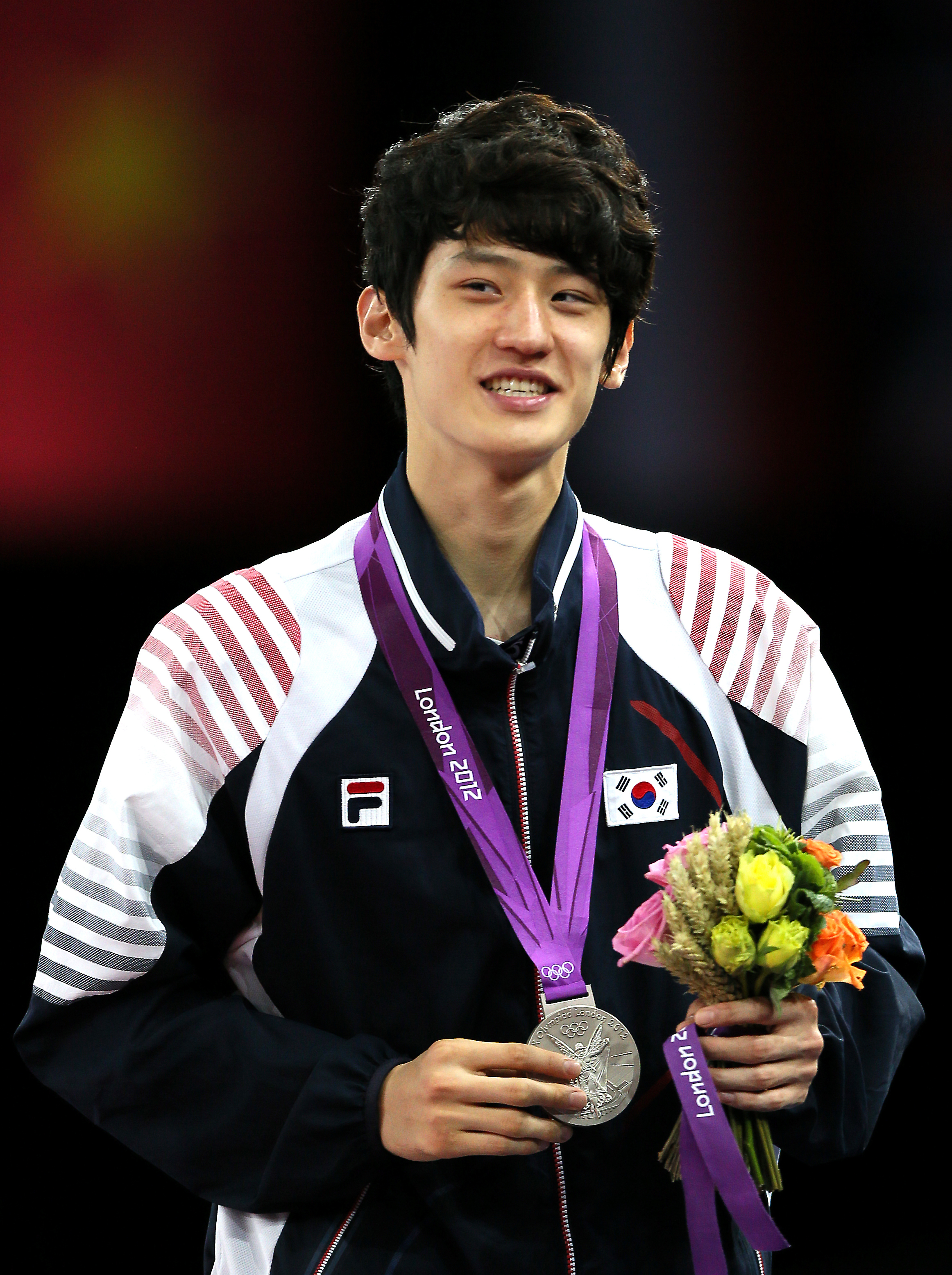 2012 London Olympic Games Korean Taekwondo Lee Dae-hoon won silver medal in men's -58kg at the ExCel Arena. 2012.08.09 Photo by Korean Olympic Committee Ministry of Culture, Sports and Tourism Korean Culture and Information Service 2012 런던 올림픽 남자 태권도 -58kg 이대훈 은메달 획득 사진제공 - 대한체육회 문화체육관광부 해외문화홍보원